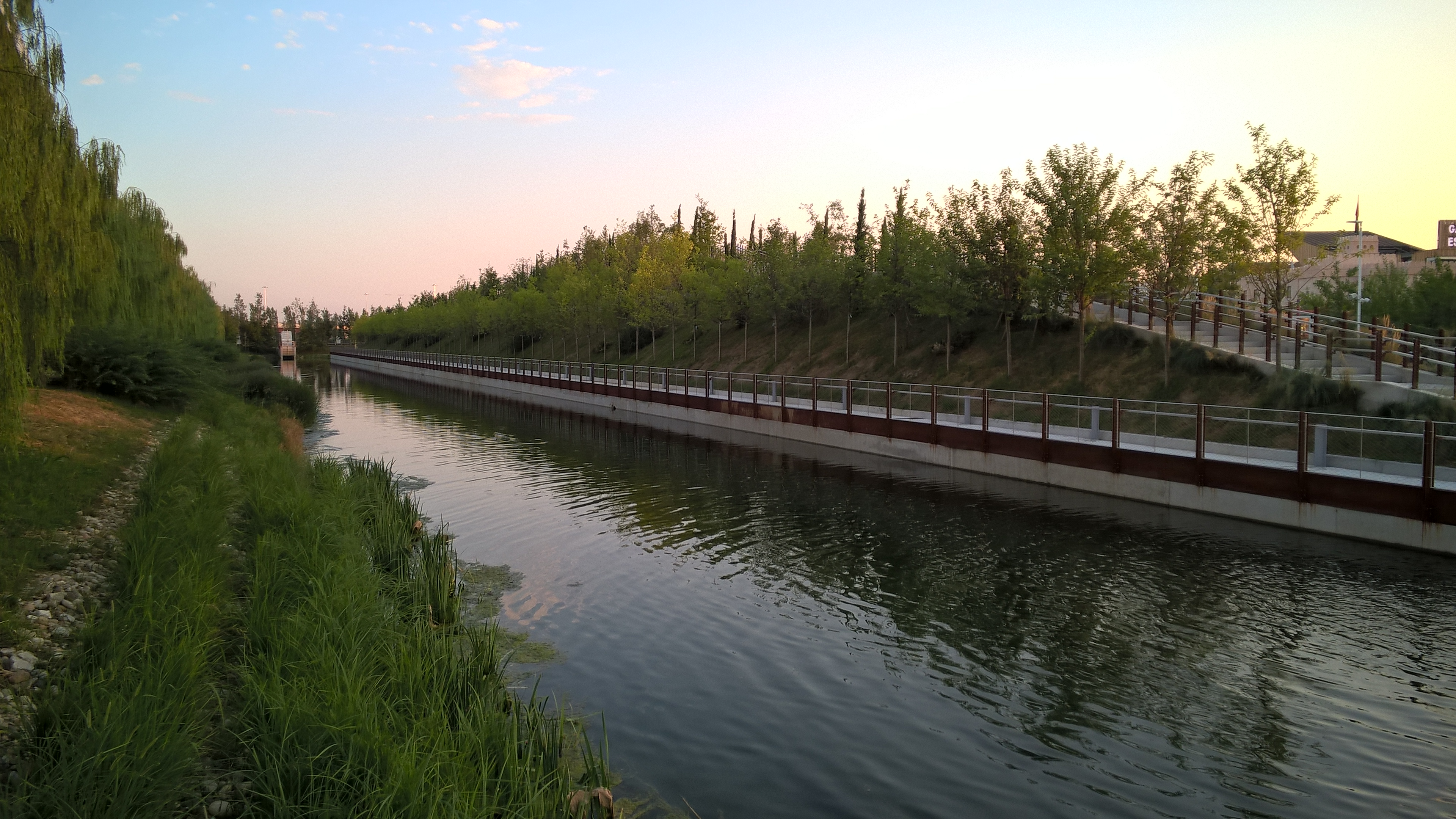 Mediterranean Hill at Expo 2015 Milano